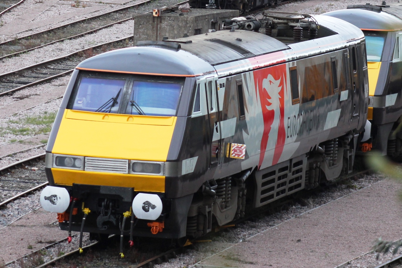 Class 91 electric locomotive 91117 has been retired from main line service on the East Coast route to Scotland and has been sold to Europhoenix for export. It is seen (along with 91120) at the UK Rail Leasing depot in Leicester.